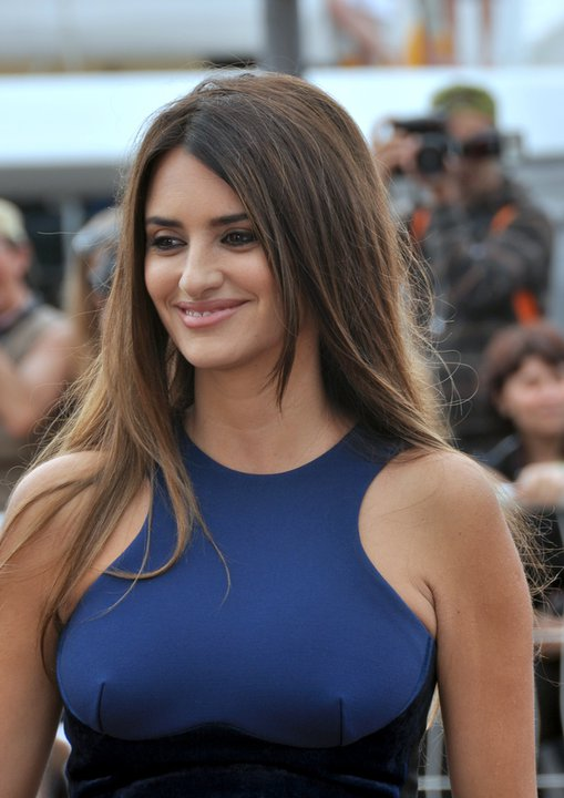 Penélope Cruz at the Cannes film festival